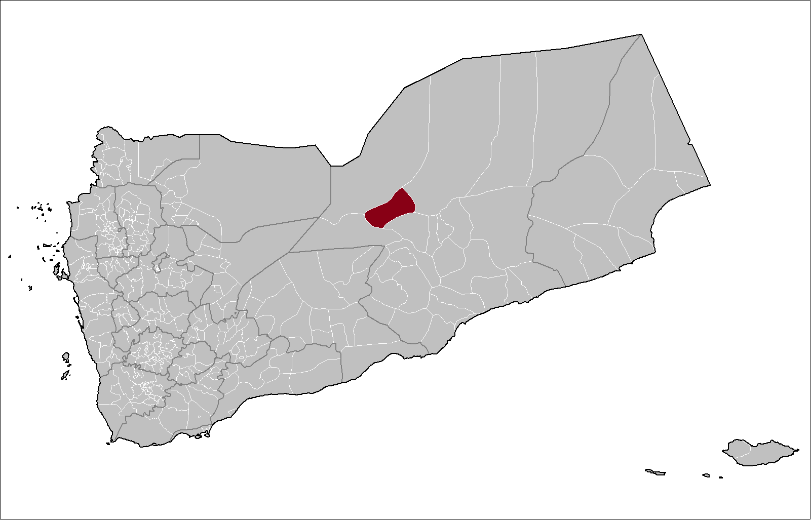 District locator of Hagr As Sai'ar District in Hadhramaut Governorate, Yemen.